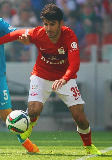 Serdar Tasci